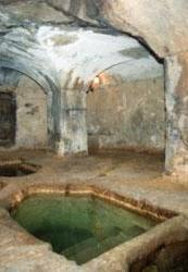 Well of the medieval ritual Jewish bath (mikweh) in Syracuse (Italy). Entirely built underground, it was hidden when the Jews were expelled from all Spanish dominions (1492). Long since forgotten, therefore preserved intact, it was recently restored and opened for visits.